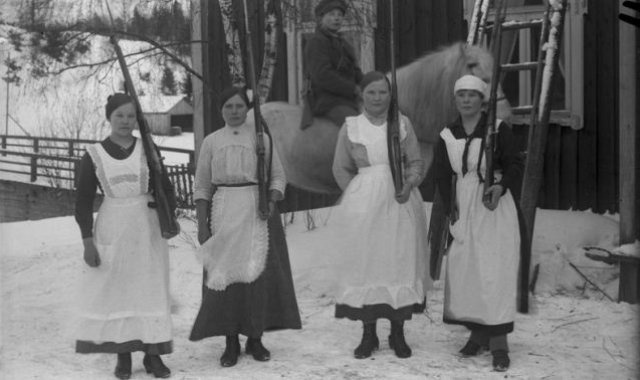 1918 Finnish Civil War: Red Guard women in the Murole village of Ruovesi.